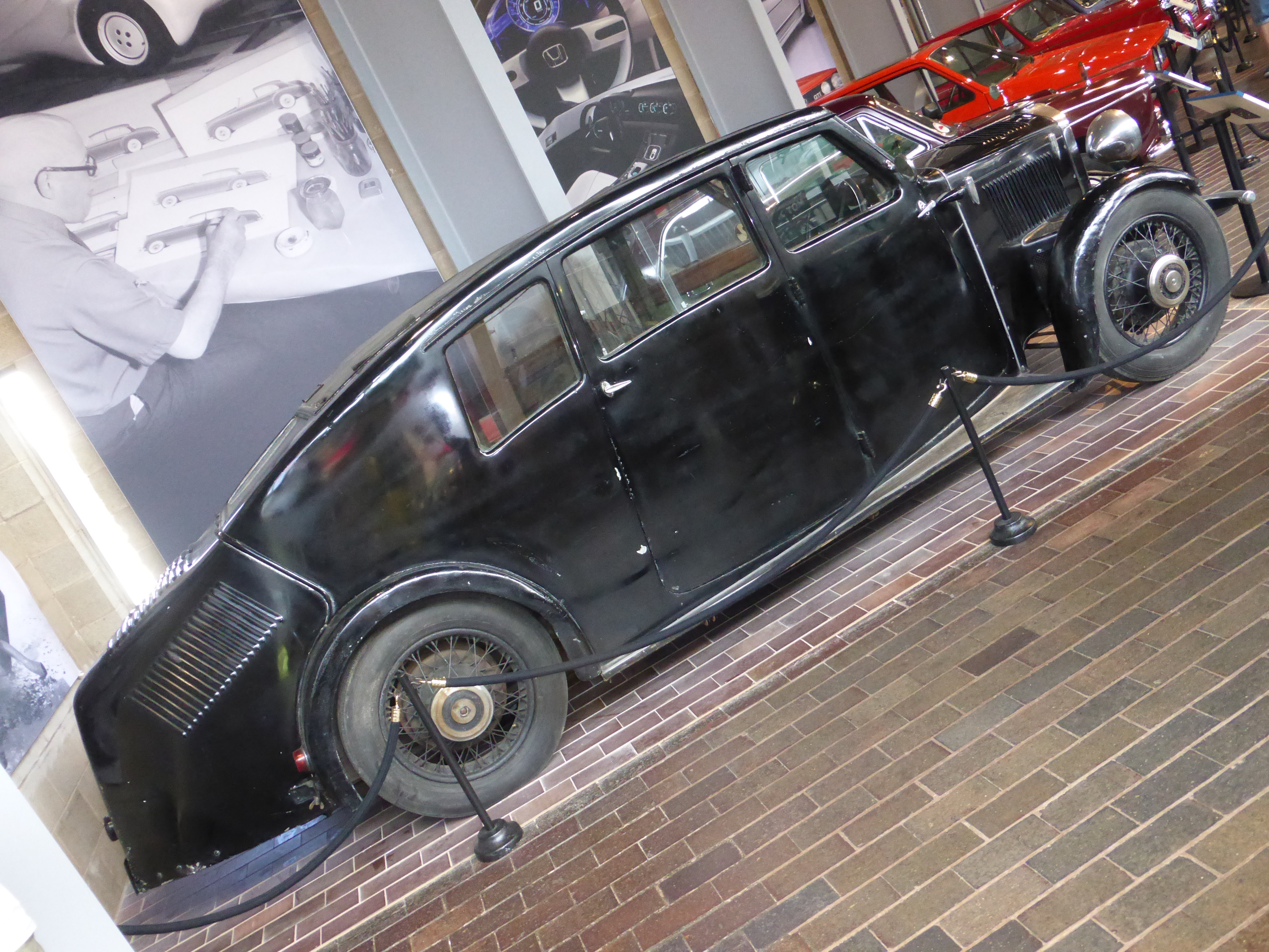 British rival for the Tatra T77? National Motor Museum at Beaulieu.